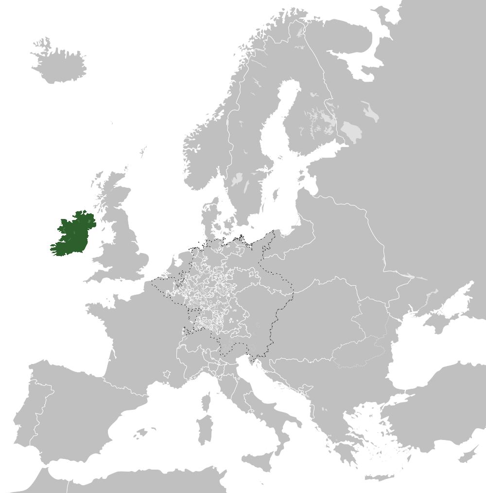 Own work, based upon Europe 1789.svg